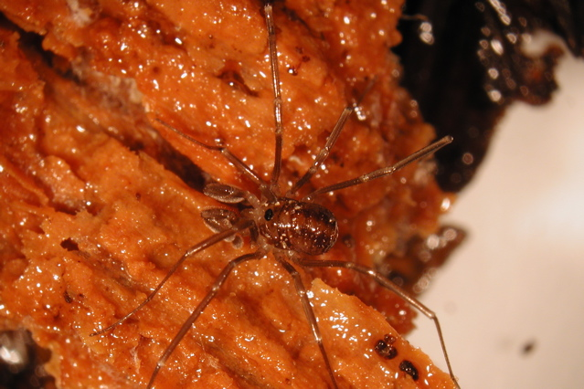 Sabacon cavicolens from the Appalachians.